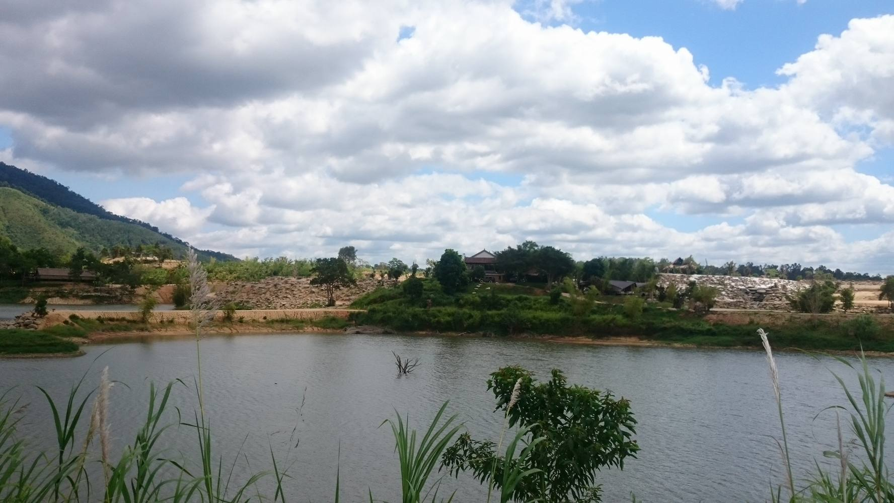 Hình ảnh toàn cảnh